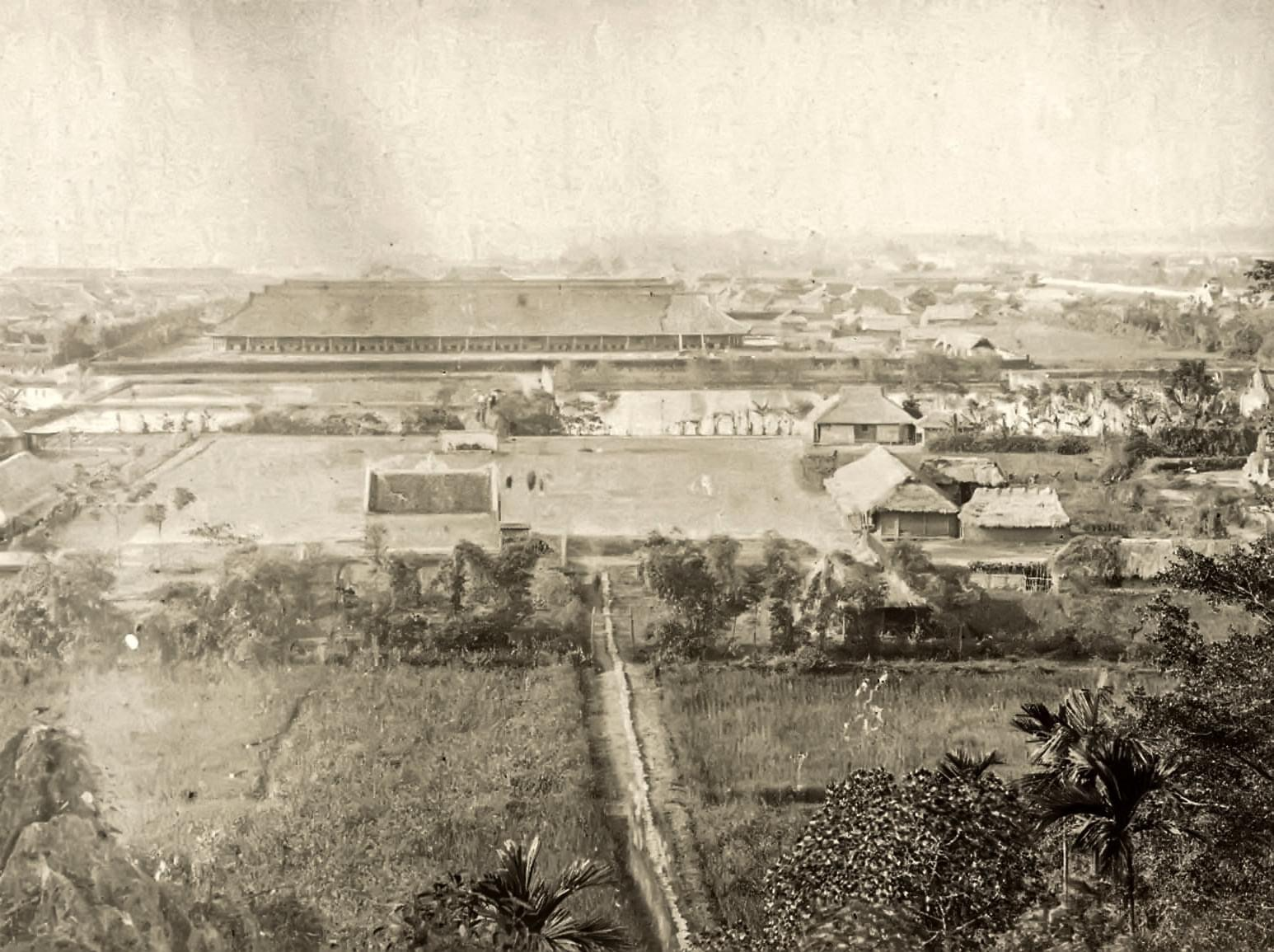 Góc nhìn tổng thể thành Hải Dương Vue générale de Haï-Duong